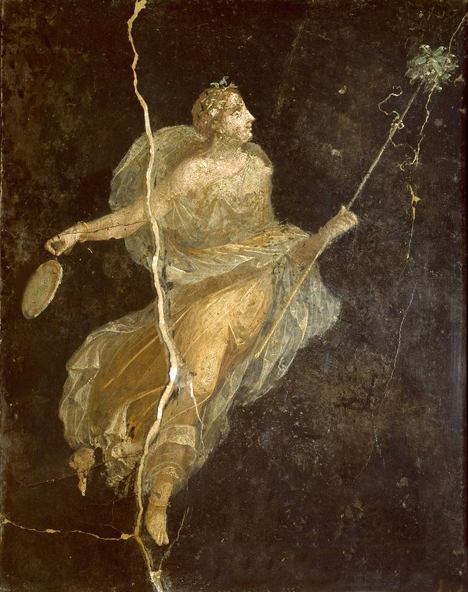 Menade (or maenad) in silk dress, a Roman fresco from the Casa del Naviglio in Pompeii, 1st century AD, Naples National Museum.